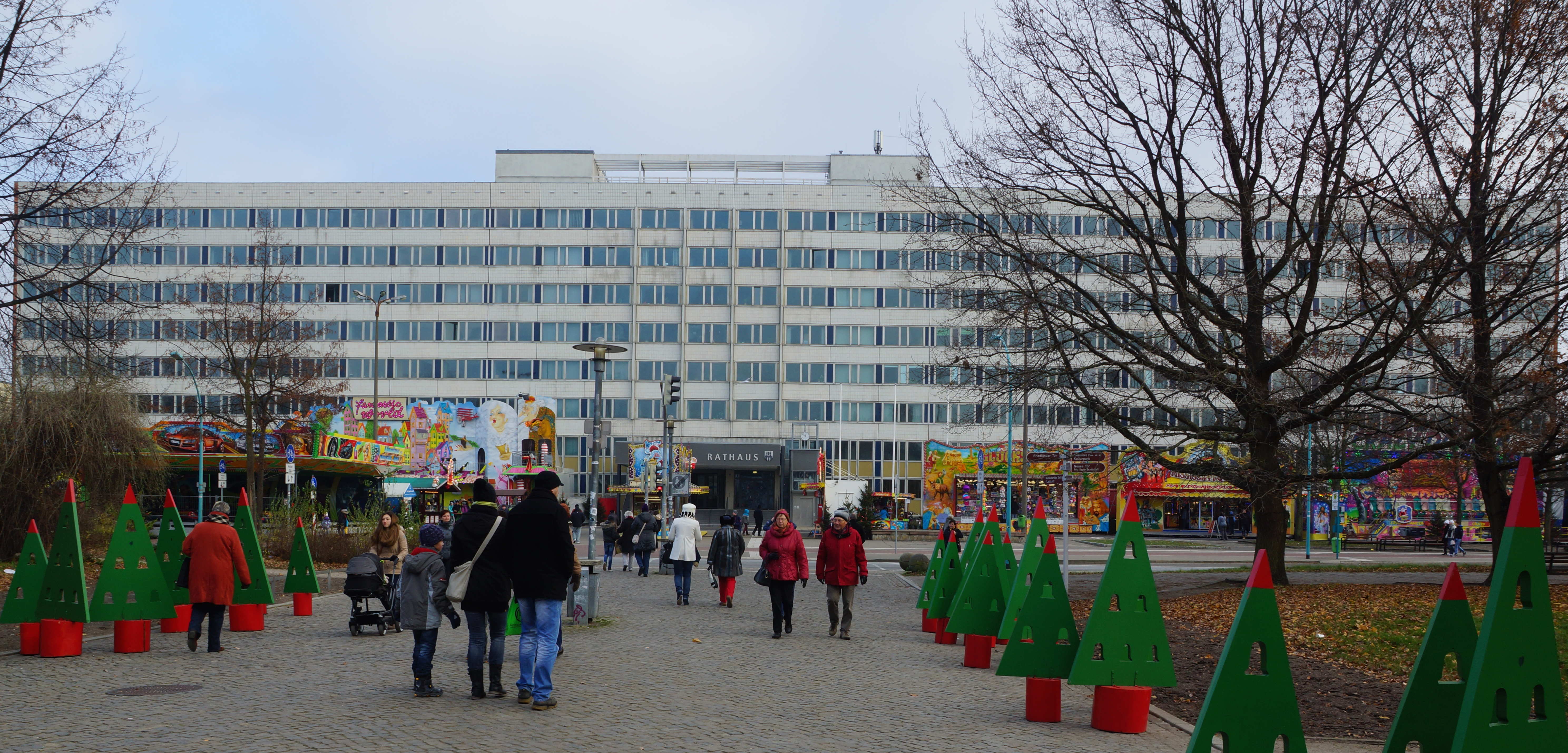 Neubrandenburg, Germany: Town hall